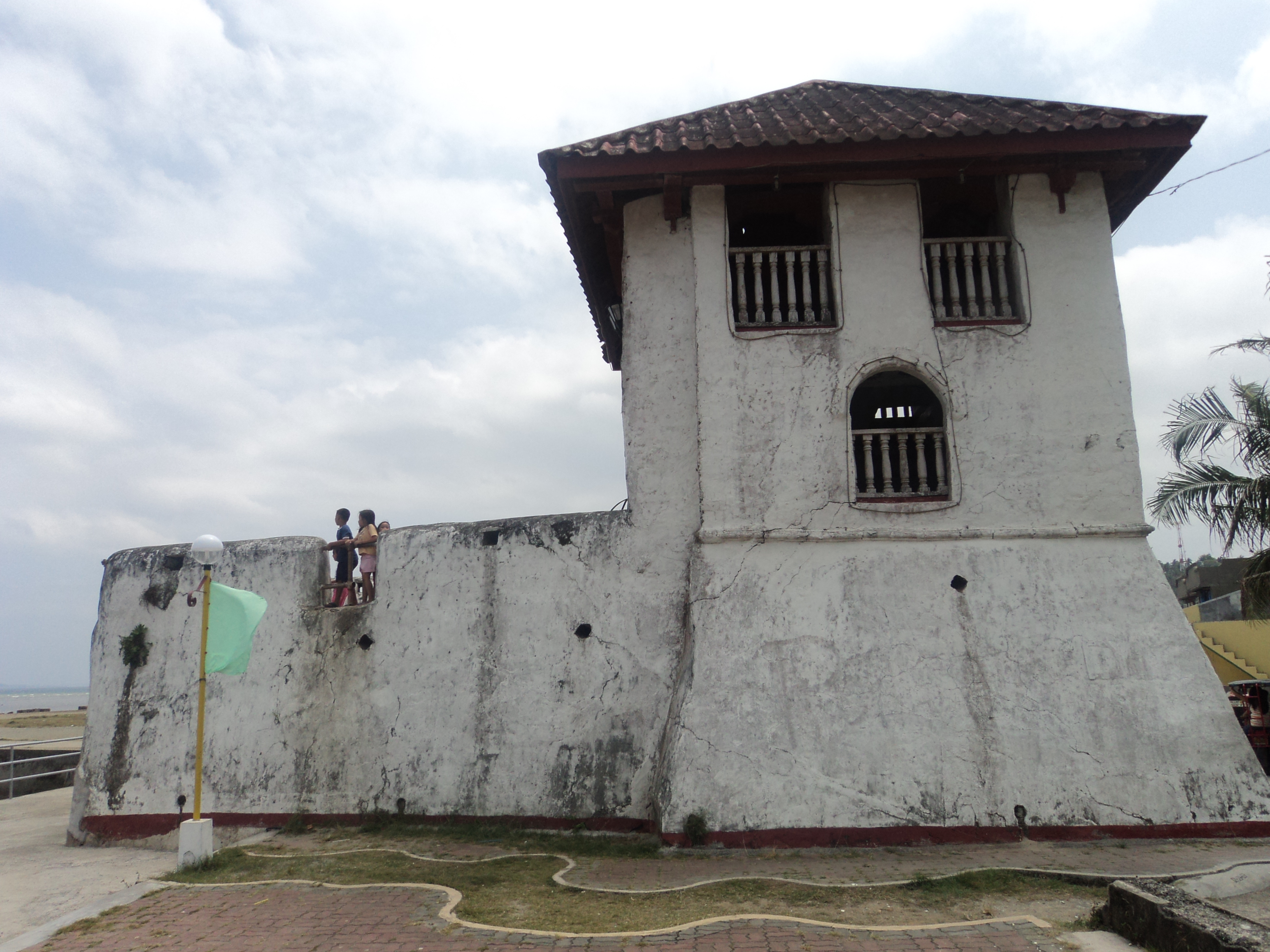 Kutang San Diego de Alcala located in Brgy. San Diego Poblacion, Gumaca, Quezon